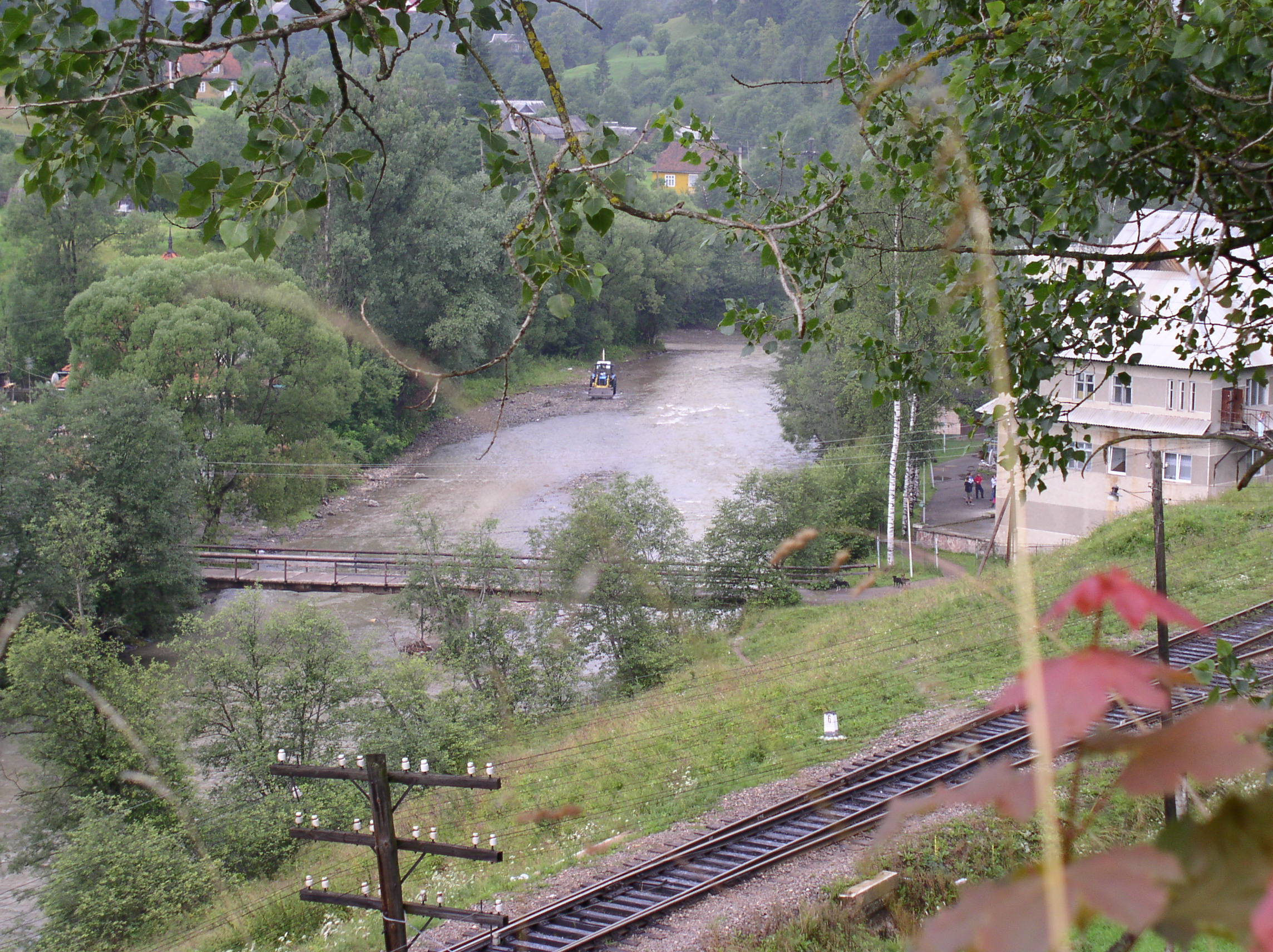 Prut River. Vorokhta, Ukraine.